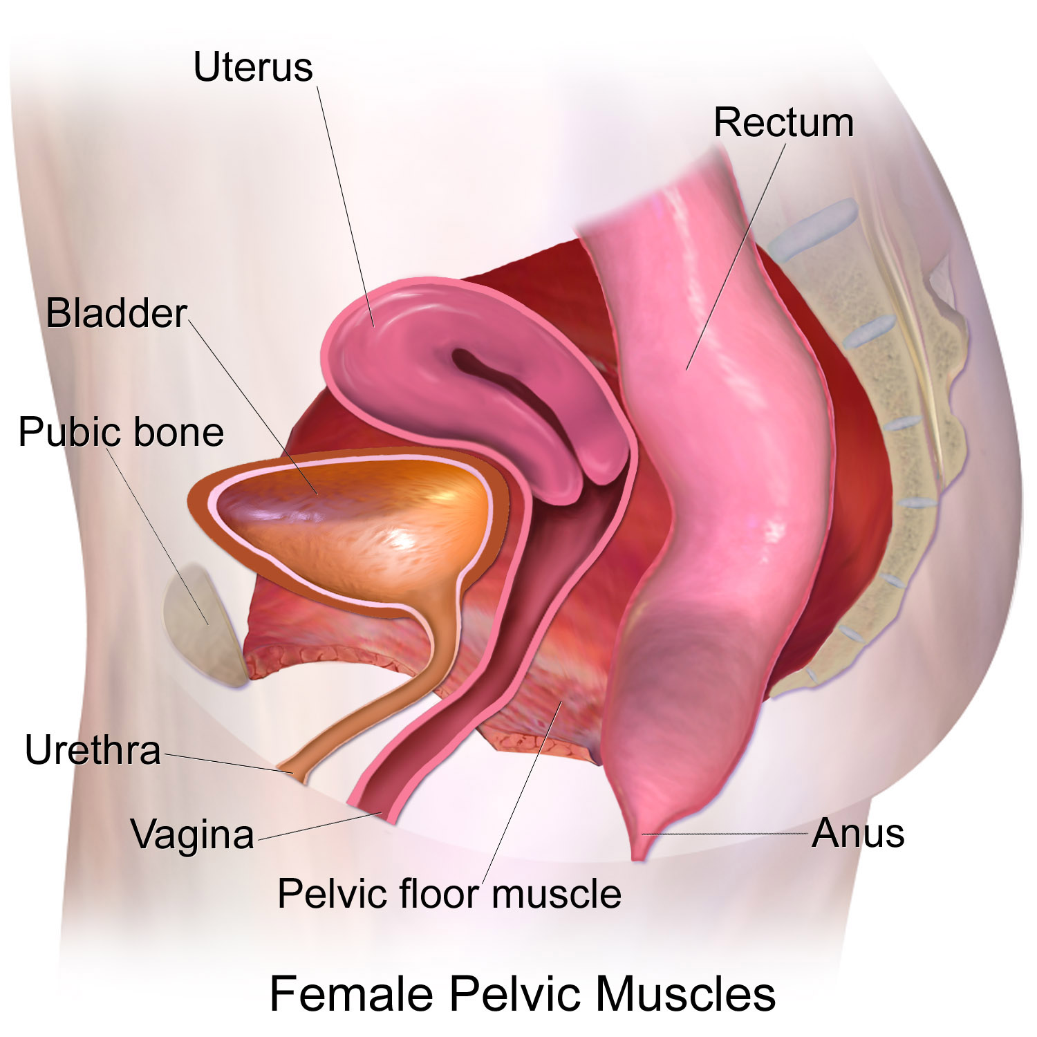 A medical illustration depicting the female pelvic muscles.